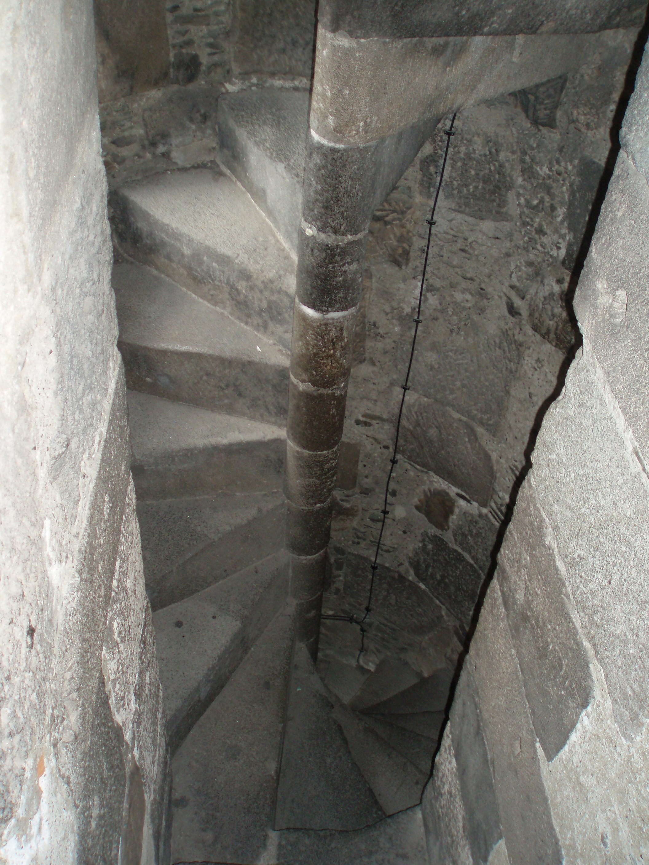 Sigismund tower, St.Elisabeth Košice